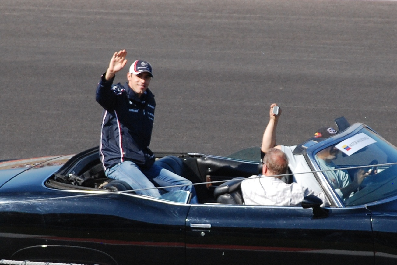 Pastor Maldonado, United States Grand Prix, Austin 2012